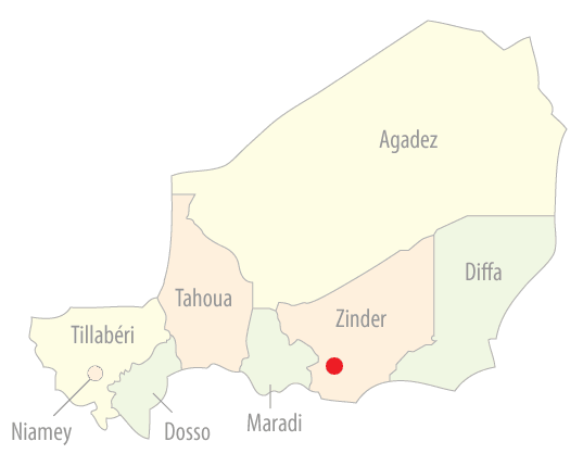 Niger cities location (Zinder)